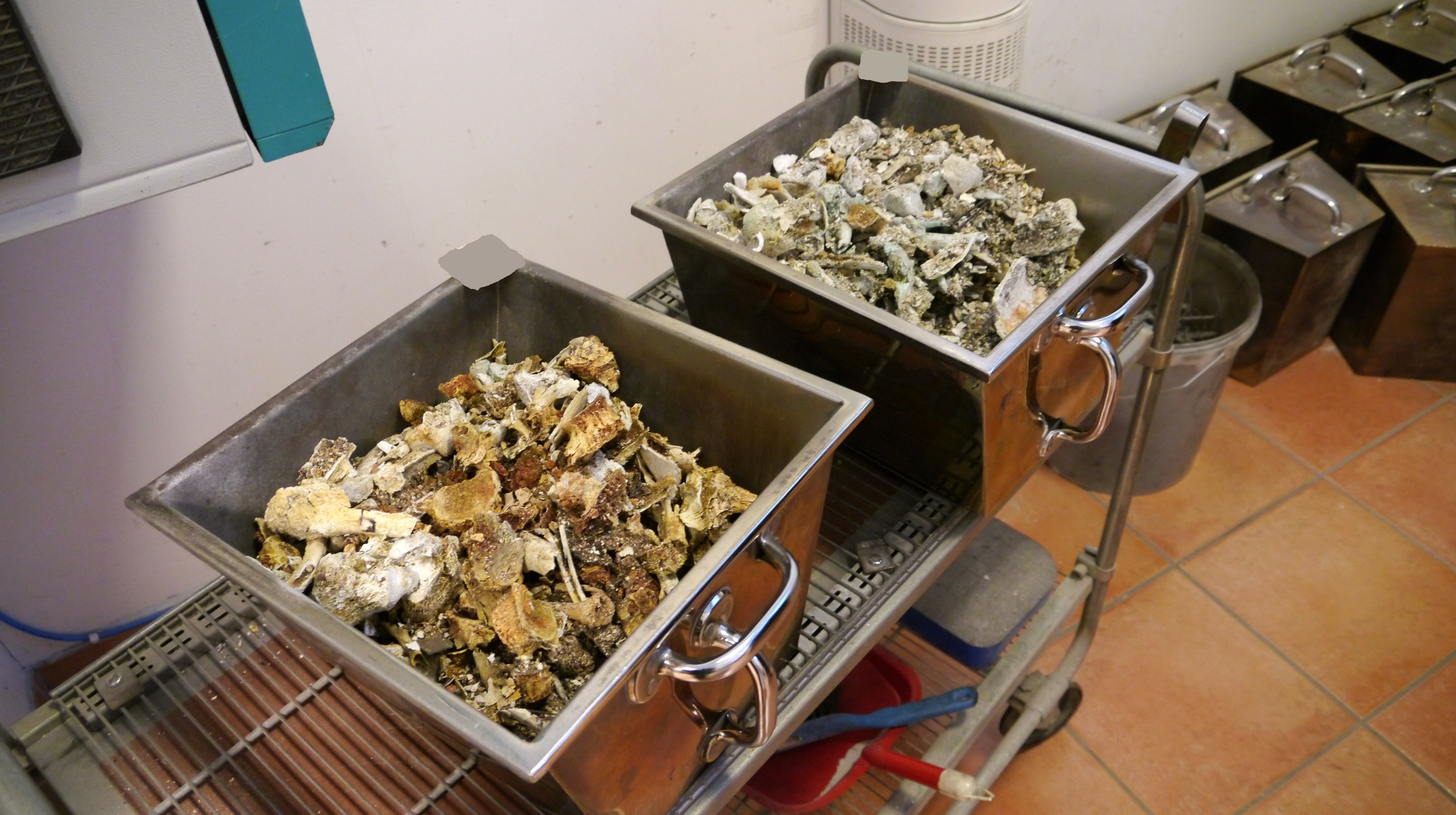 Remains from two persons (identification of them are not possible) after a 1000 degrees instead of the normal used approximate 800 degrees in calcination.